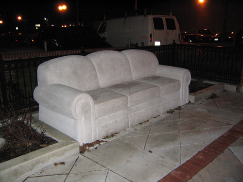 cement couch: This cement couch is right next to Magnolia Thunderpussy and Skully's.